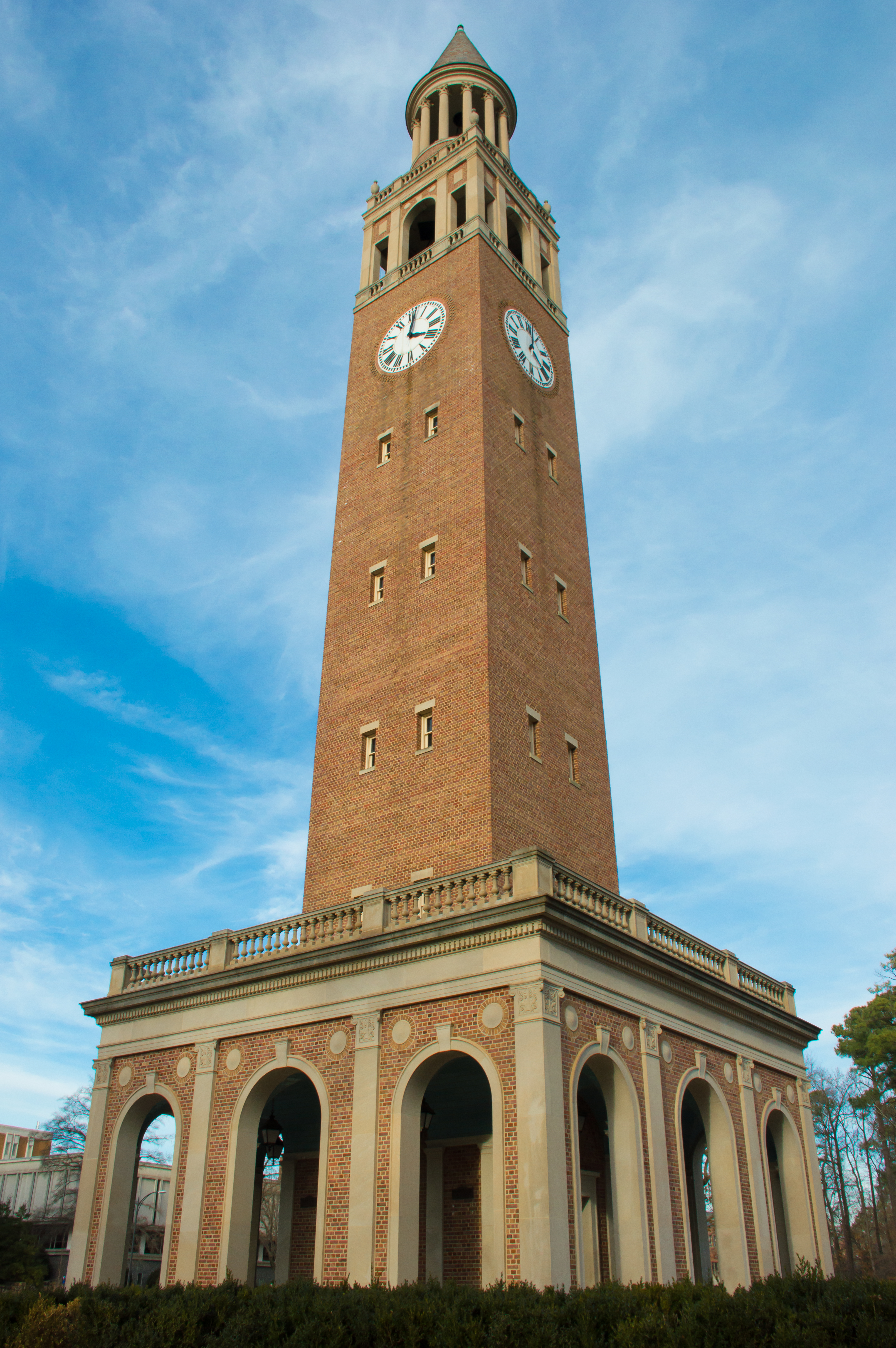 The Morehead-Patterson Bell Tower at the University of North Carolina at Chapel Hill